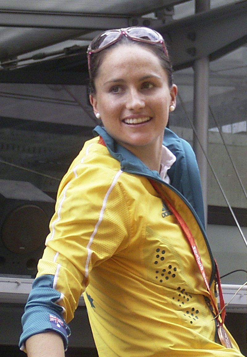 Emma Moffatt, Brisbane Olympic Homecoming Parade